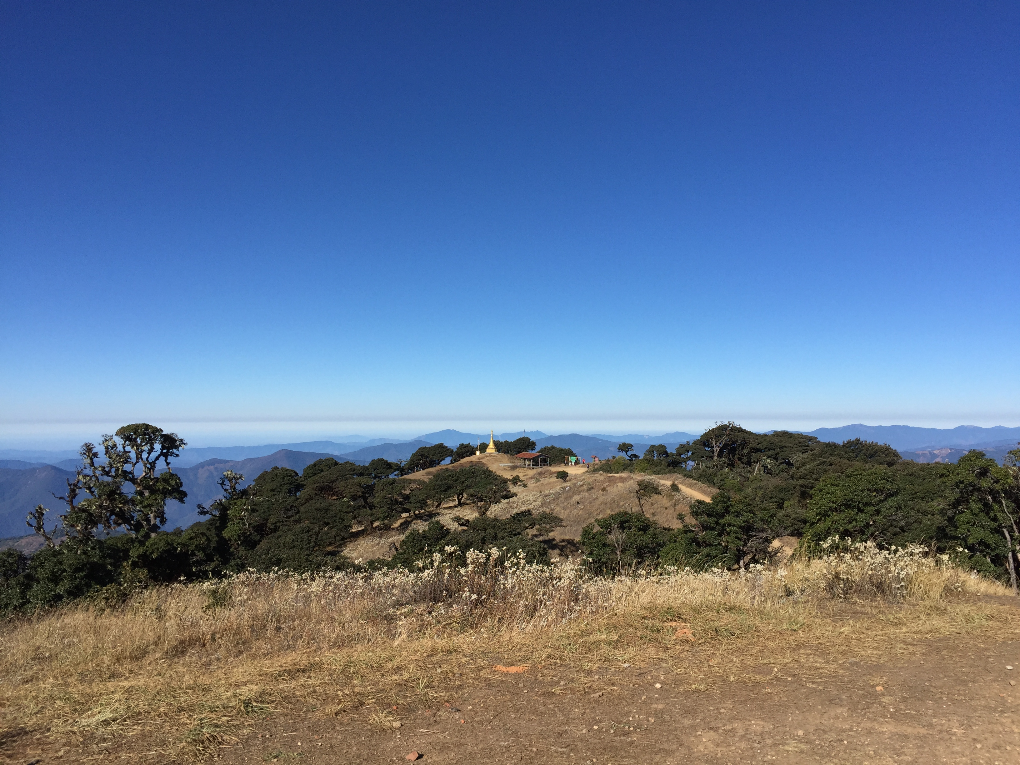 Nat Ma Taung Summit မြန်မာဘာသာ: နတ်မတောင်ထိပ်